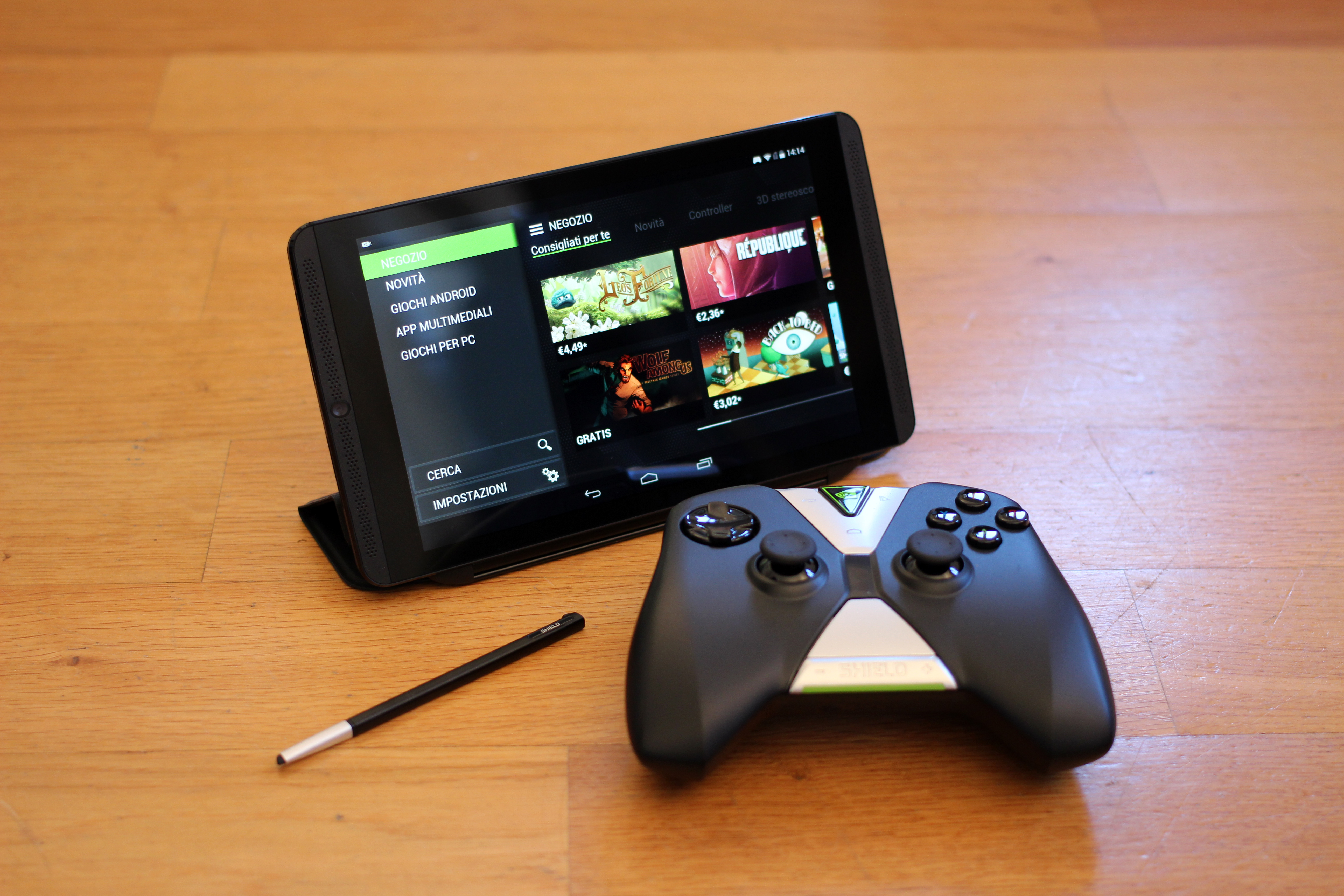 NVIDIA Shield Tablet with Wireless Controller